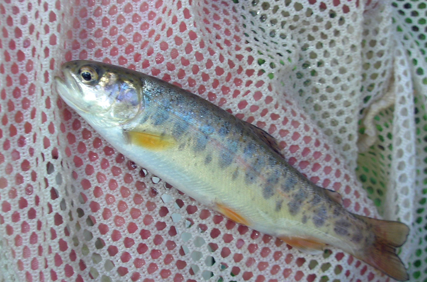 Rainbow trout (Oncorhynchus mykiss) caught in the Sawtooth National Recreation Area, Idaho